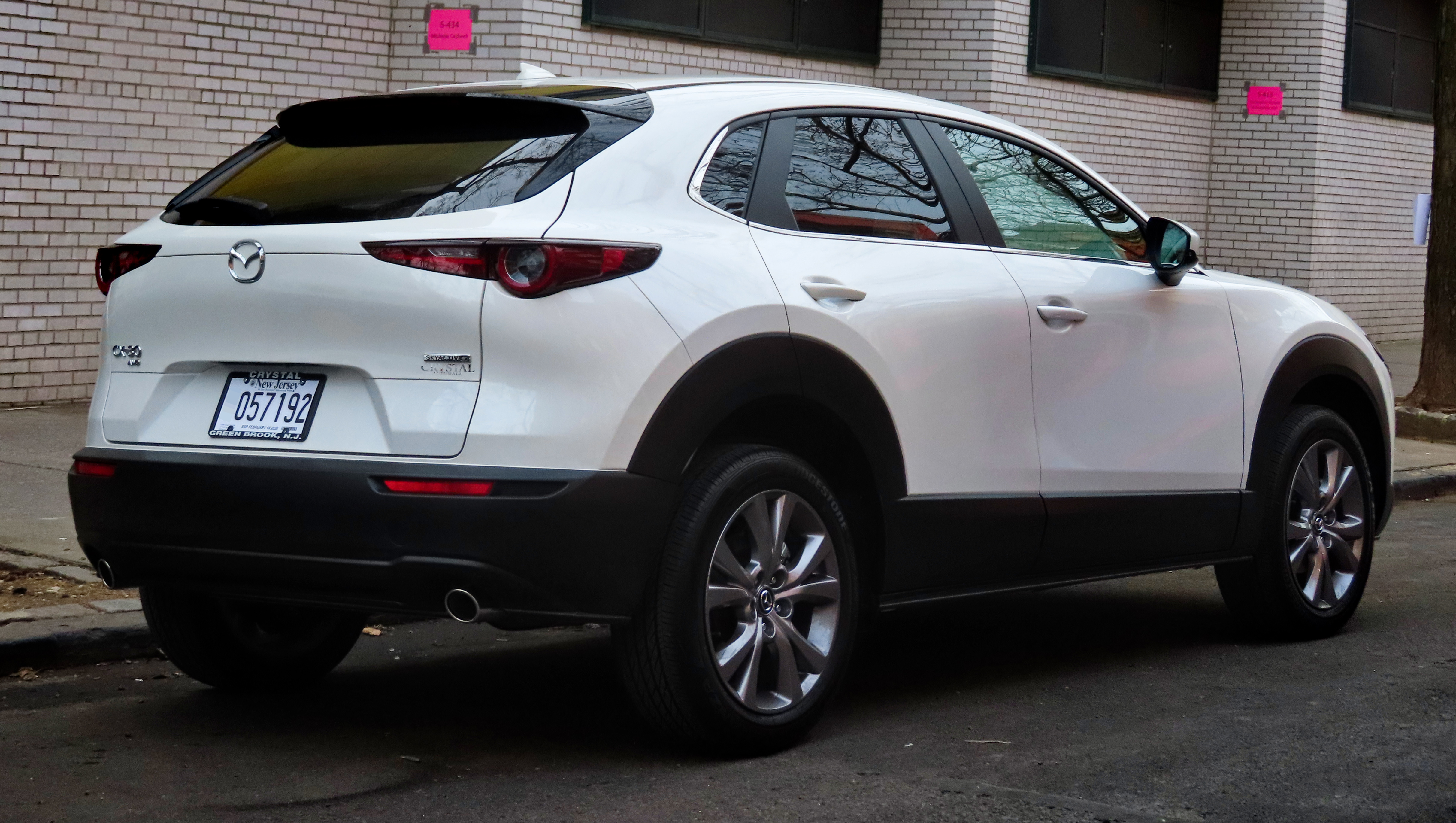 A 2020 Mazda CX-30 photographed in Greenwich Village, Manhattan, New York, USA